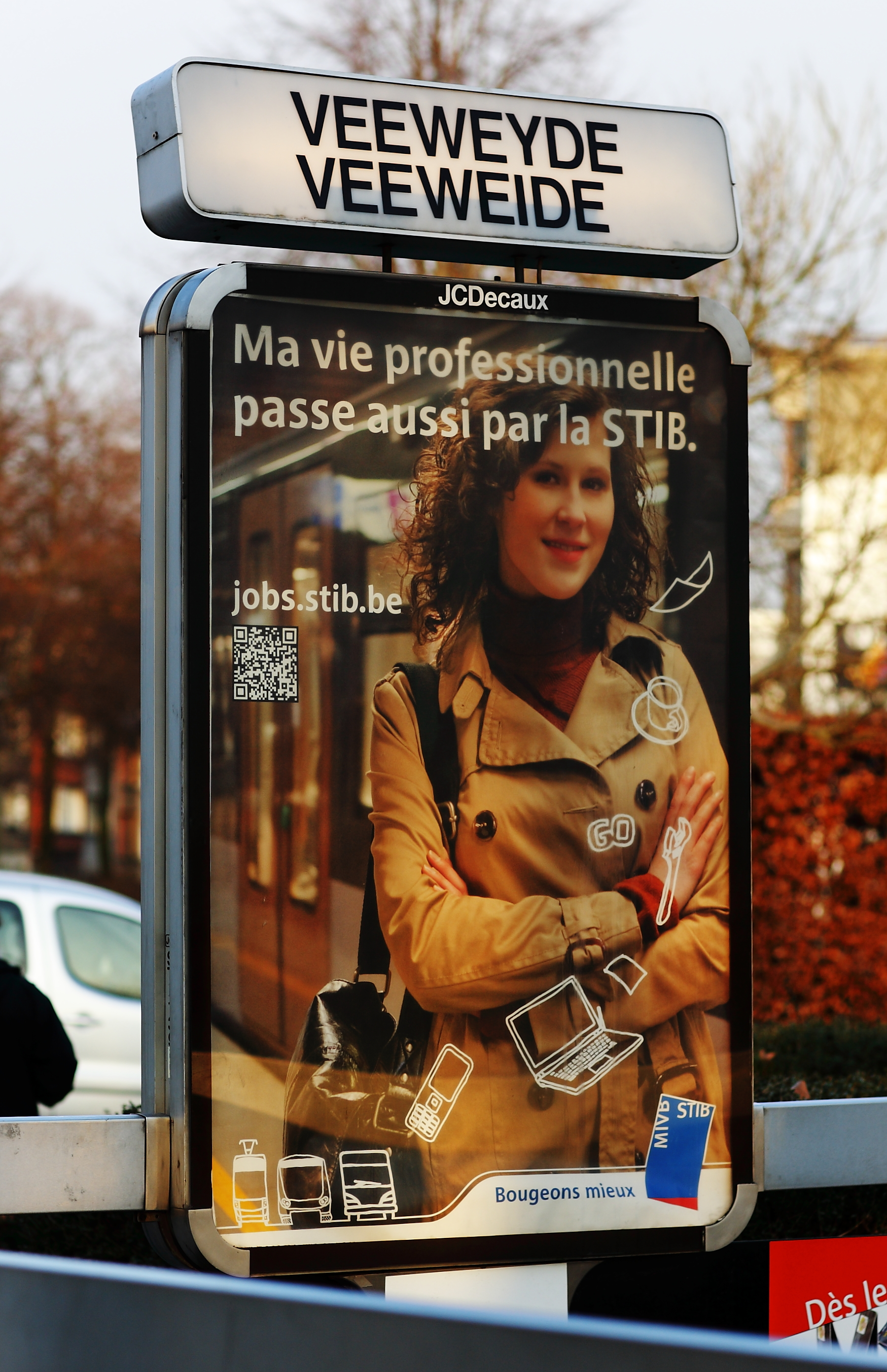 Veeweide / Veeweyde metro station at Anderlecht, Belgium Veeweide / Veeweyde metro station in Anderlecht, België Veeweide / Veeweyde metro station a Anderlecht, Belgique